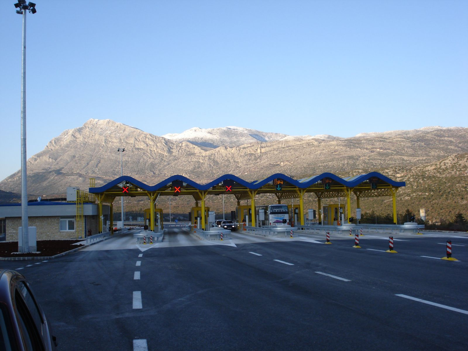 Toll houses near Ravča, Vrgorac, on the croatian A1 Highway.